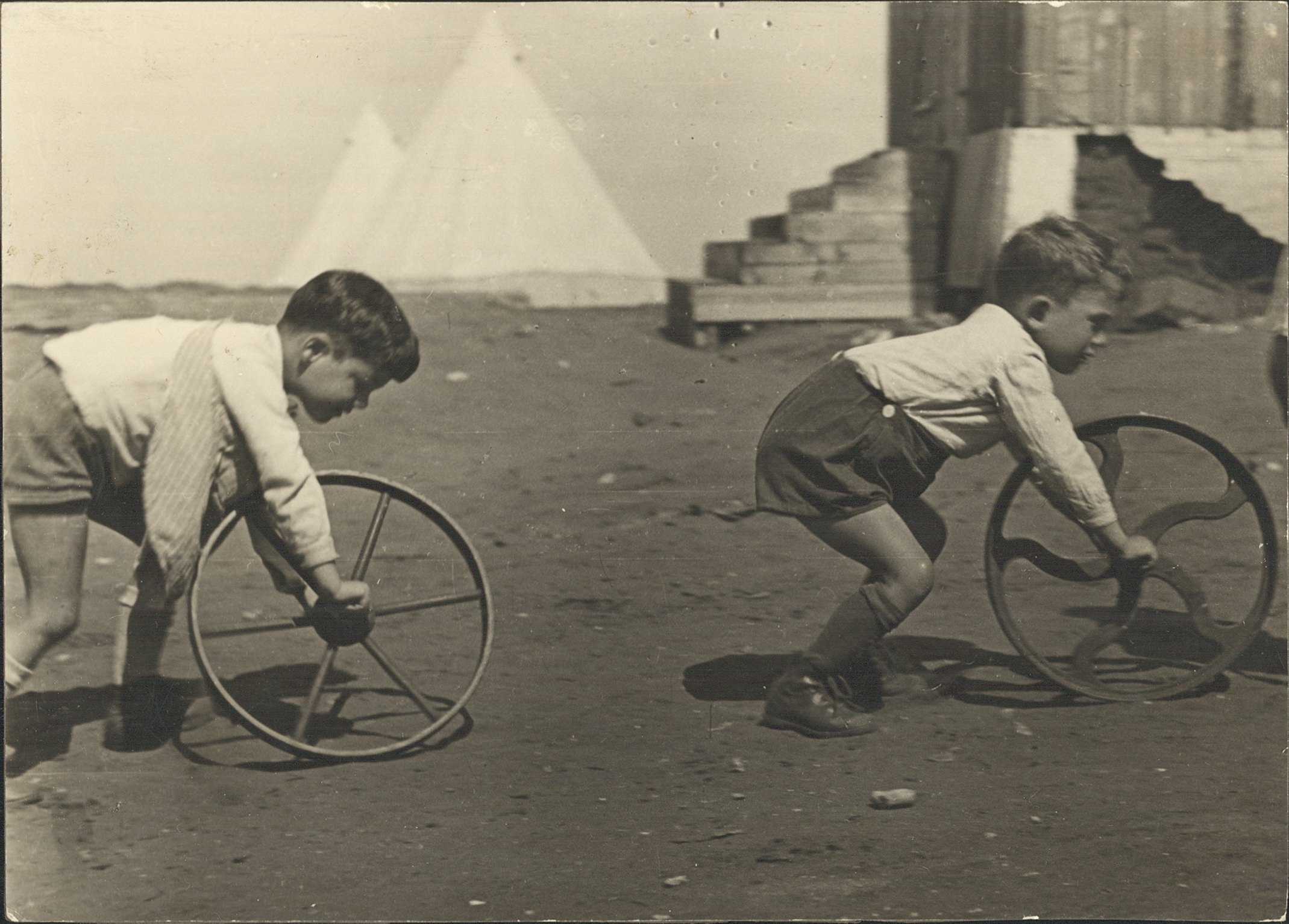 children at Kibbutz Givat Hshlosha, Education in Israel